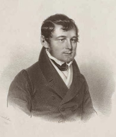 Portrait of Joseph Trentsensky (1793-1839)